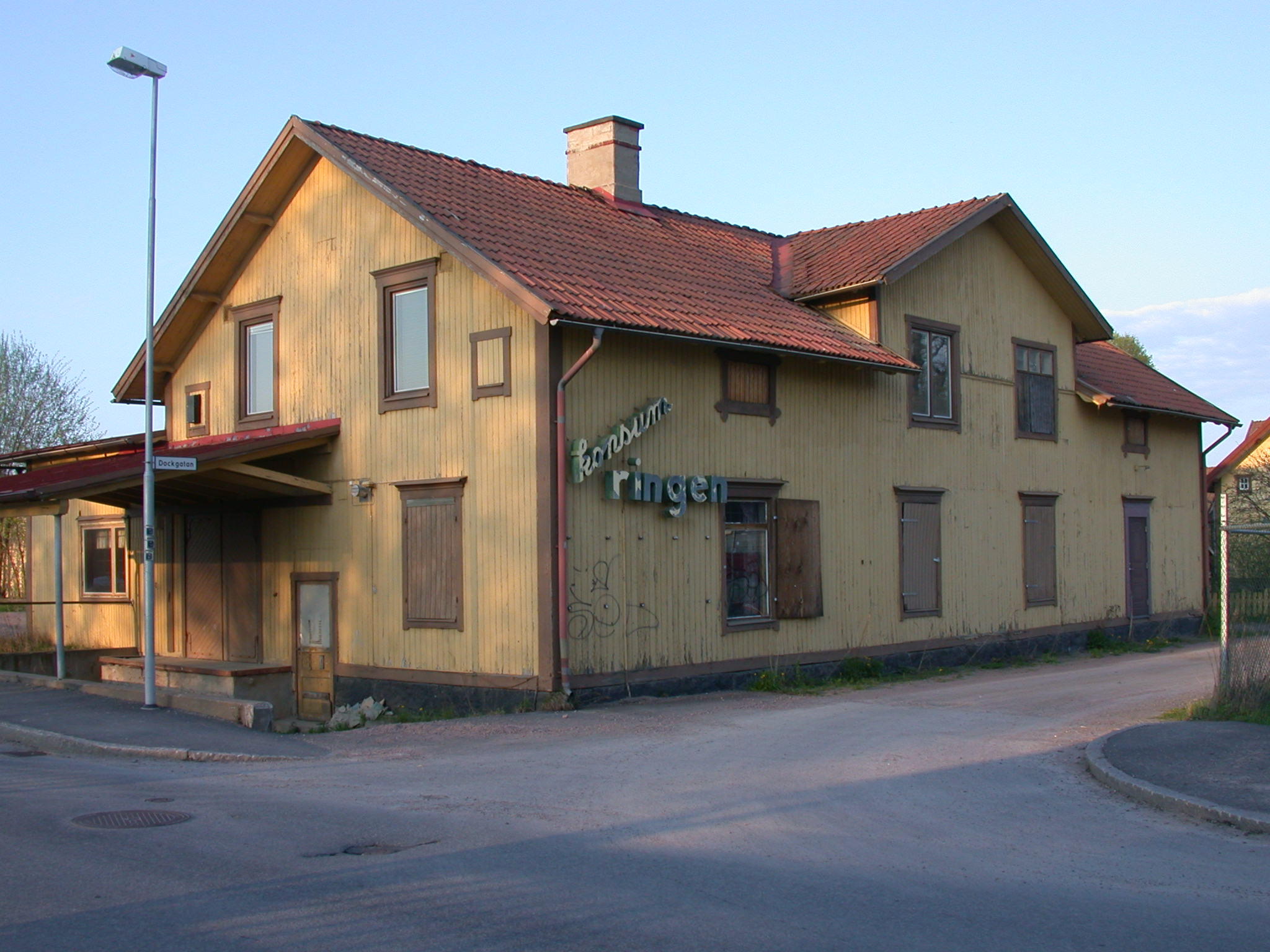 The old Konsum grocery in Motala, Sweden. Photo by Riggwelter, May 10, 2006.